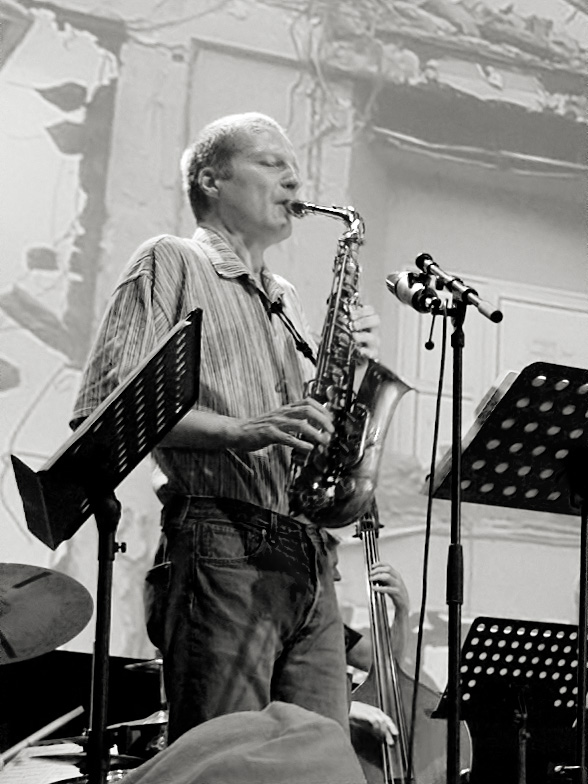 Peter Bolte, Moers Festival 2009